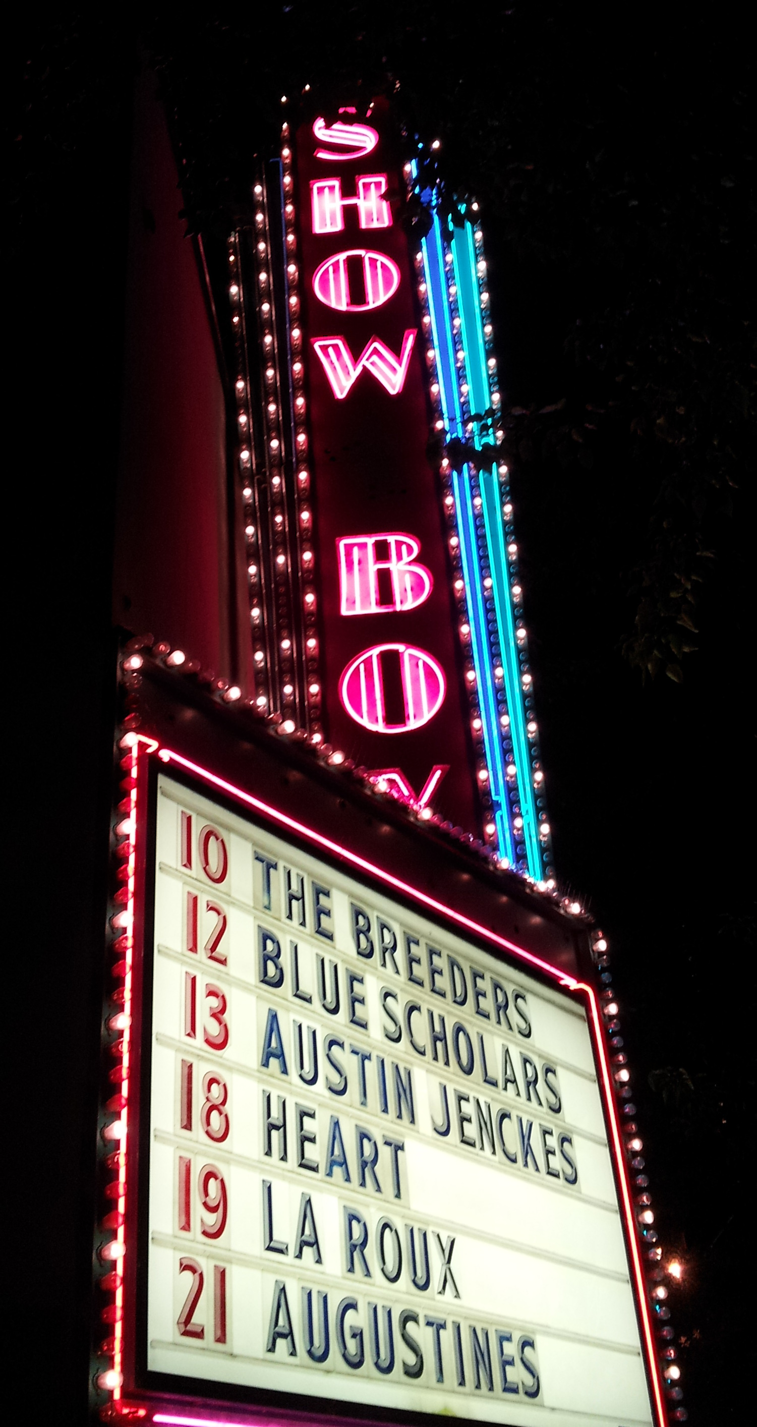 Marquee of the Showbox in Seattle showing October 2014 concerts at the venue